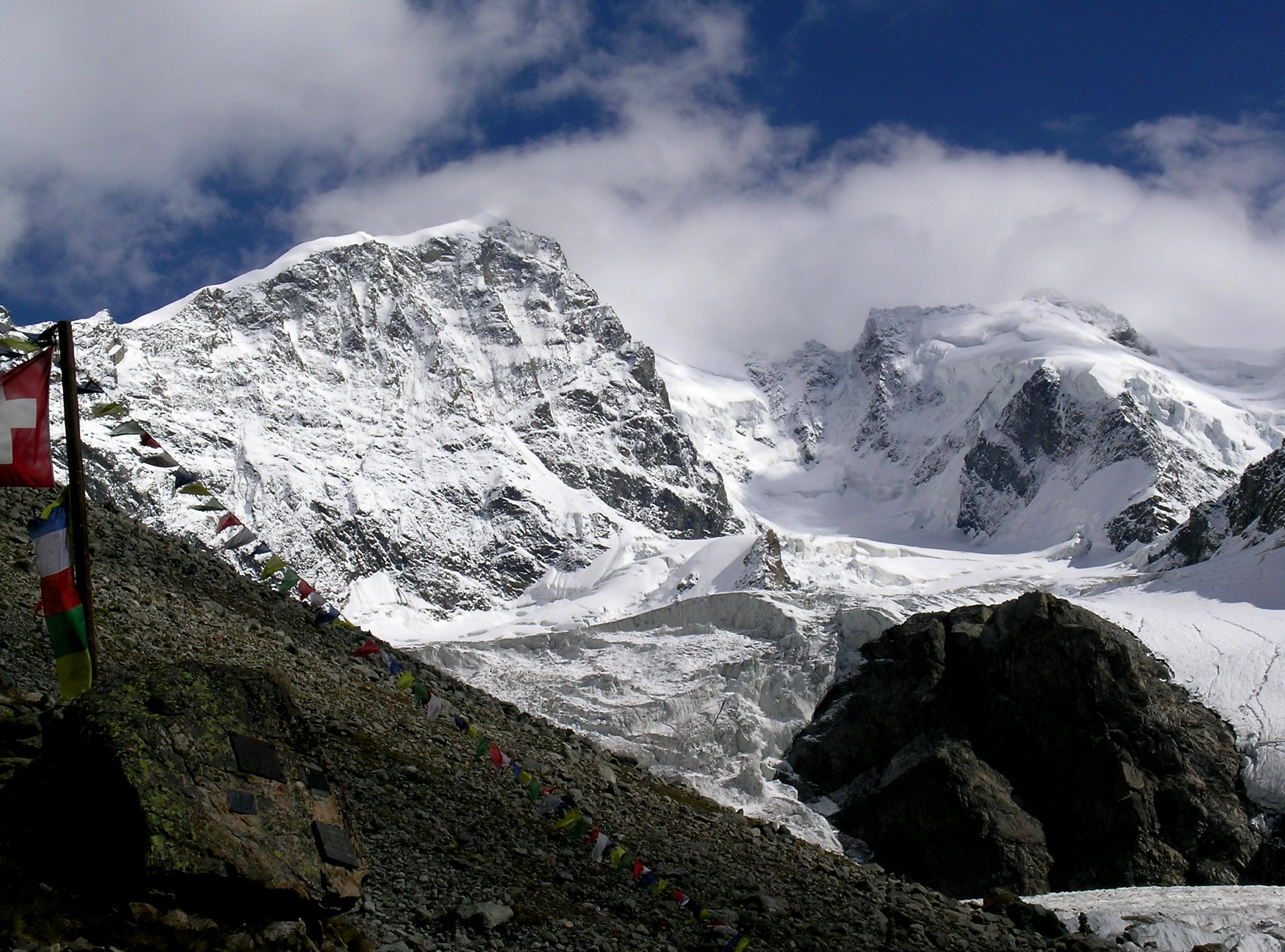 The west face of Piz Bernina (4049 metres), Graubünden